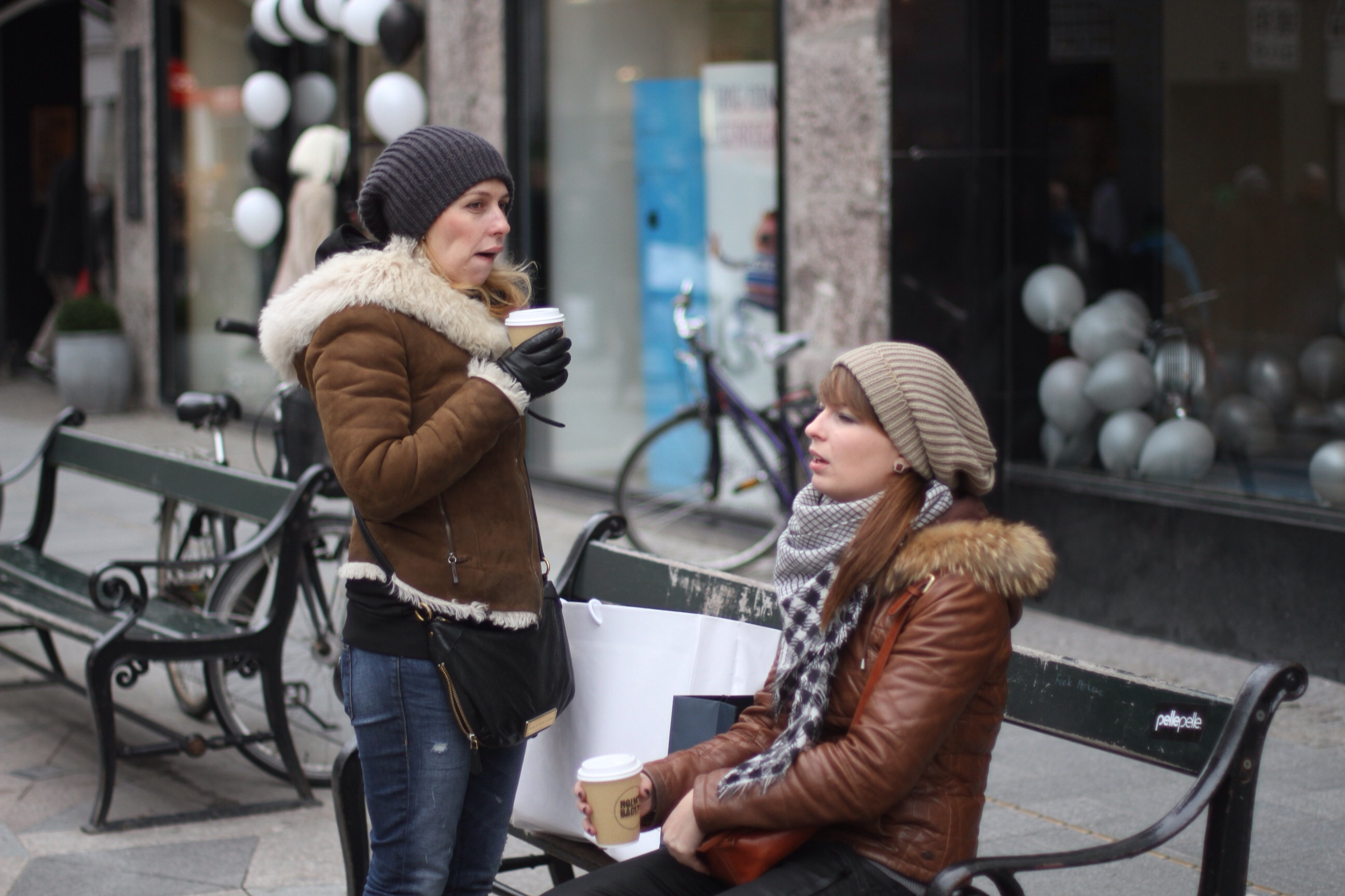 Two Danish women having a cup of coffee in Copenhagen (Köpenhamn)